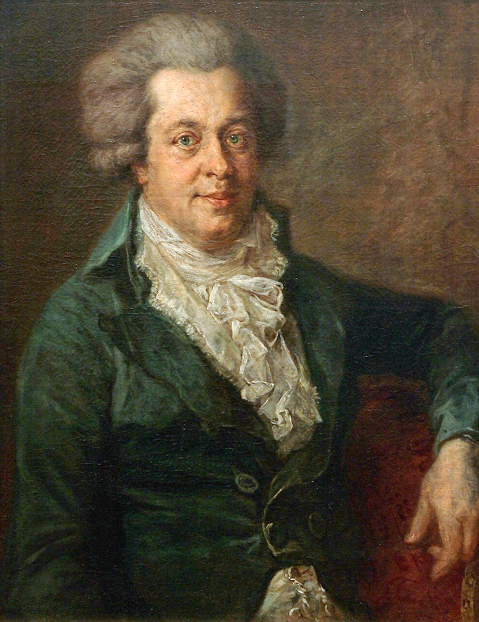 So-called "Edlinger Mozart". The authenticity of this portrait has not been proven. The painting's history from its origin until 1934 is still a matter of ongoing research. It is uncertain, however, if this part of its history can ever be clarified. Despite of this problem, the painting has attracted much attention because of its high artistic quality and because of being a strong candidate for the last portrait of the composer.